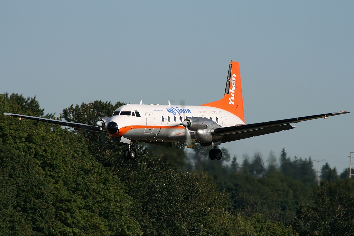 Hawker Siddeley-HS-748 Air North (C-FYDU) landing at Seattle Boeing Field Airport